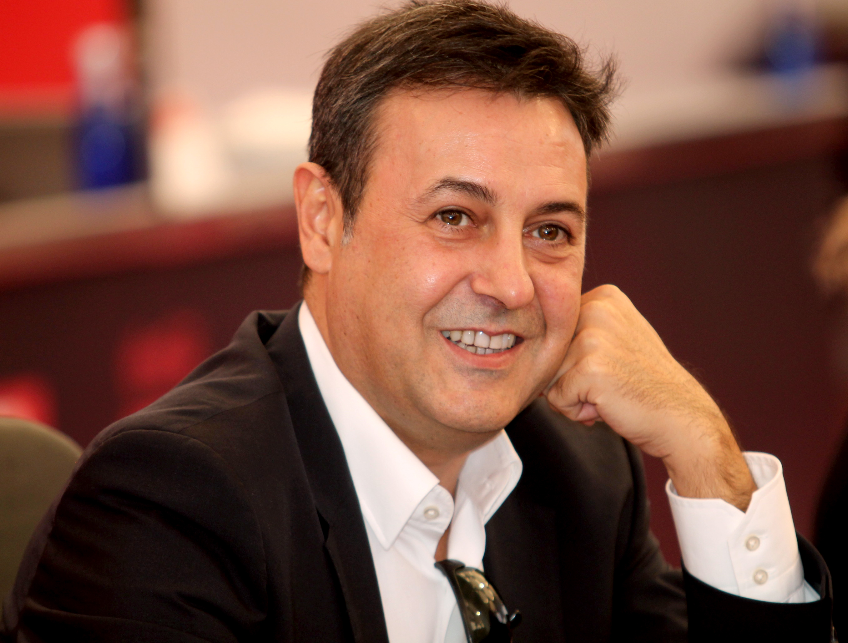 José Ribagorda, Spanish journalist.